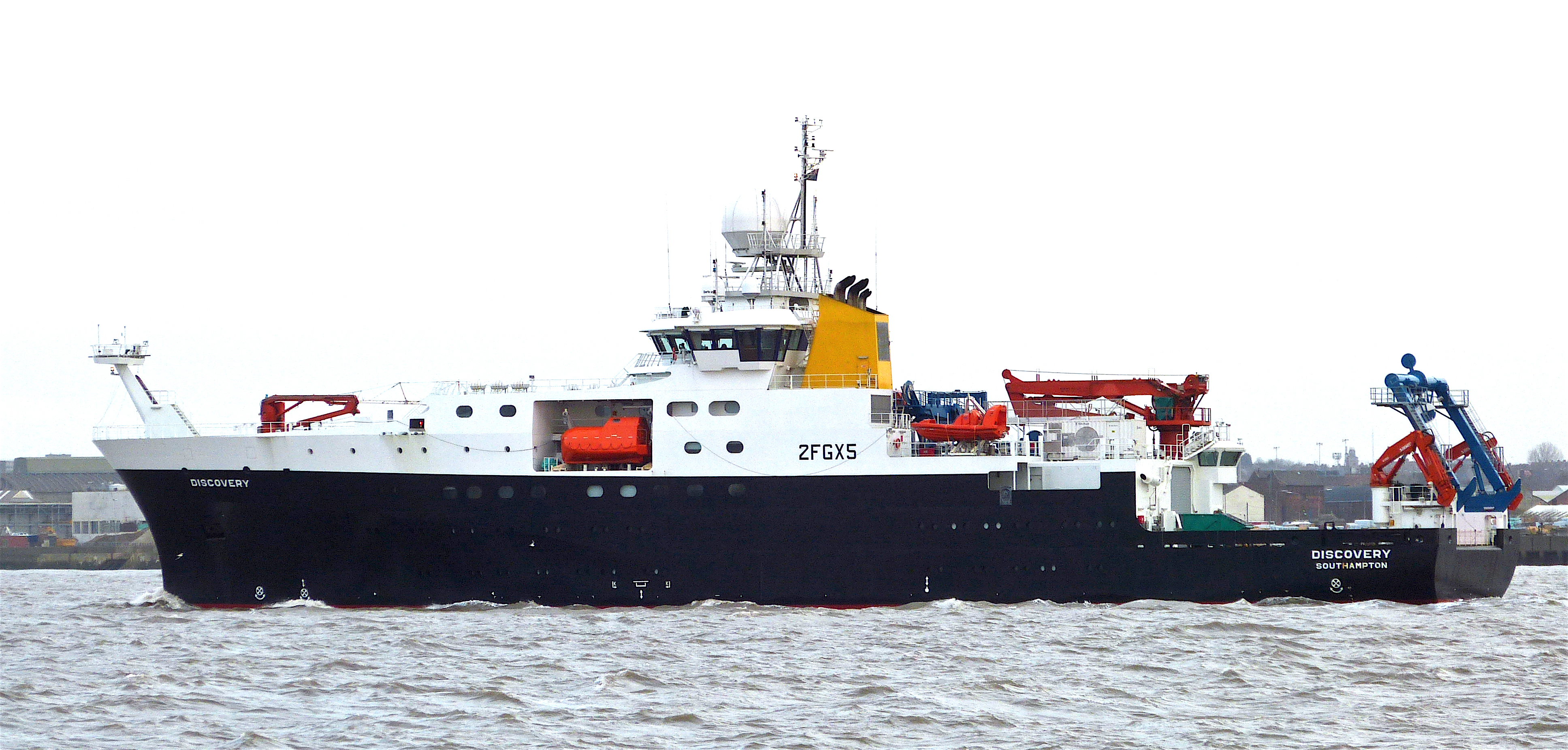 After a weekend stopover the survey vessel headed out with the tide on the Sunday morning.